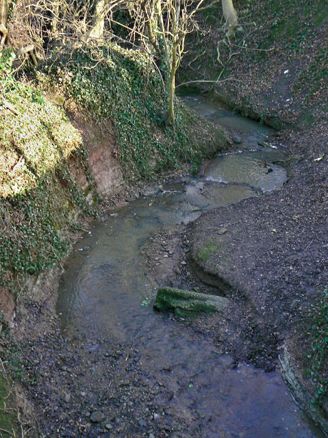 Top Dumble stream (2) Seen from the footbridge. This shows clearly how the stream bed is incised through the strata of sedimentary rocks, which are largely of a soft mudstone.